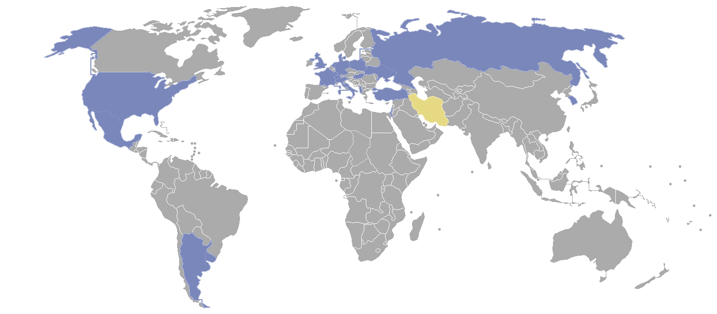 Countries participating in the competition for the Golden Bear 2011 (incl. coproduction countries)